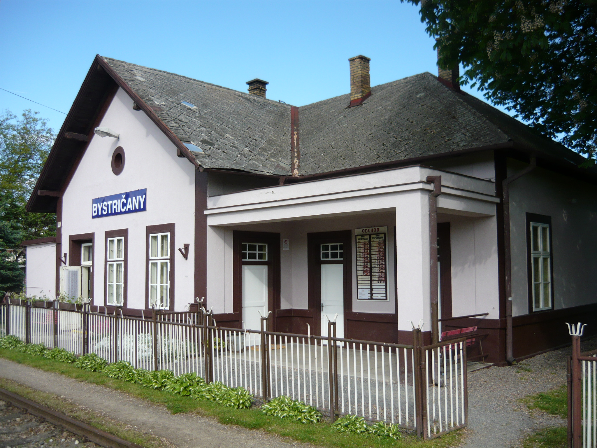 Train station in Bystričany, Slovakia.